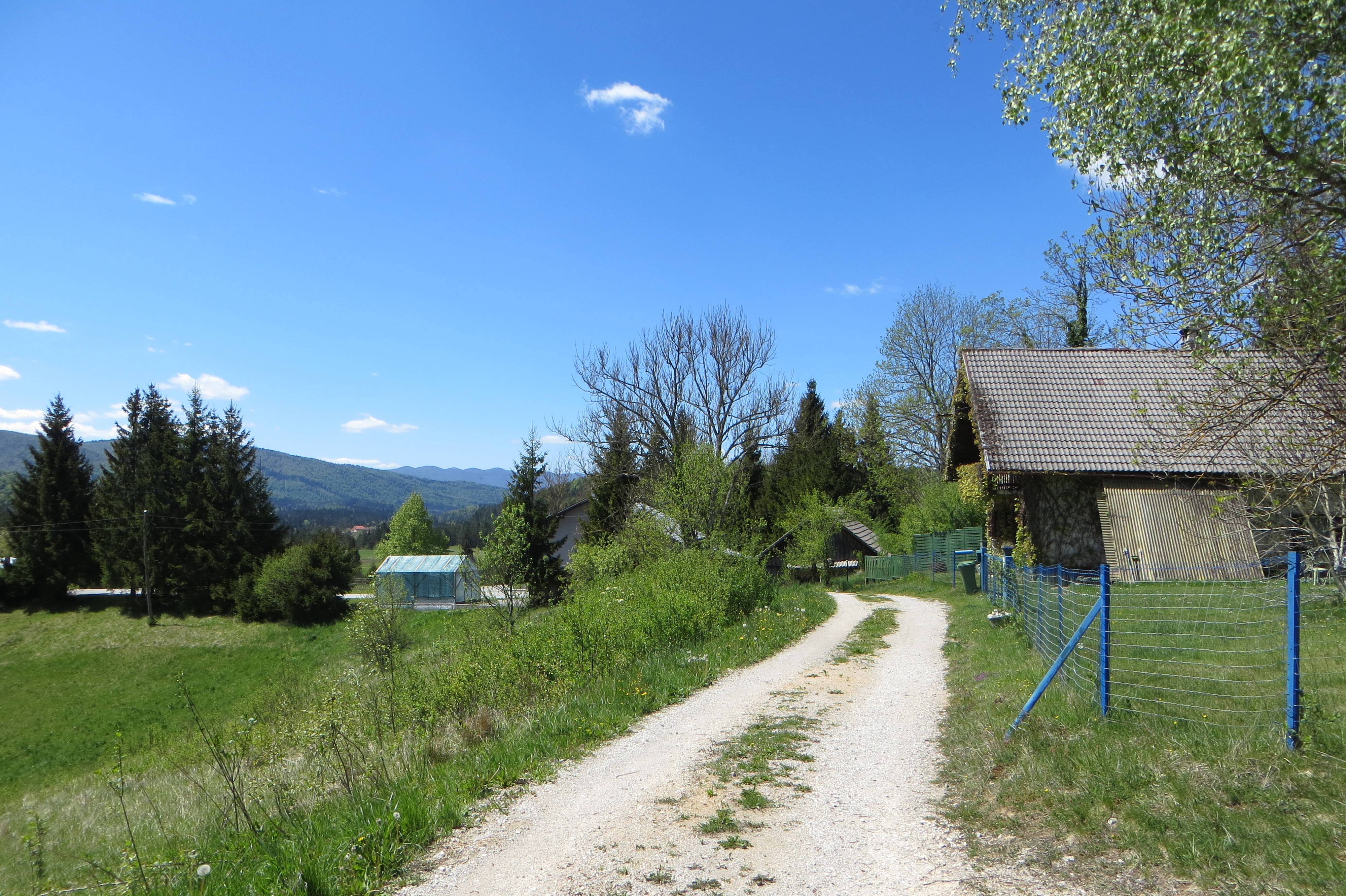 Hribljane, Municipality of Cerknica, Slovenia